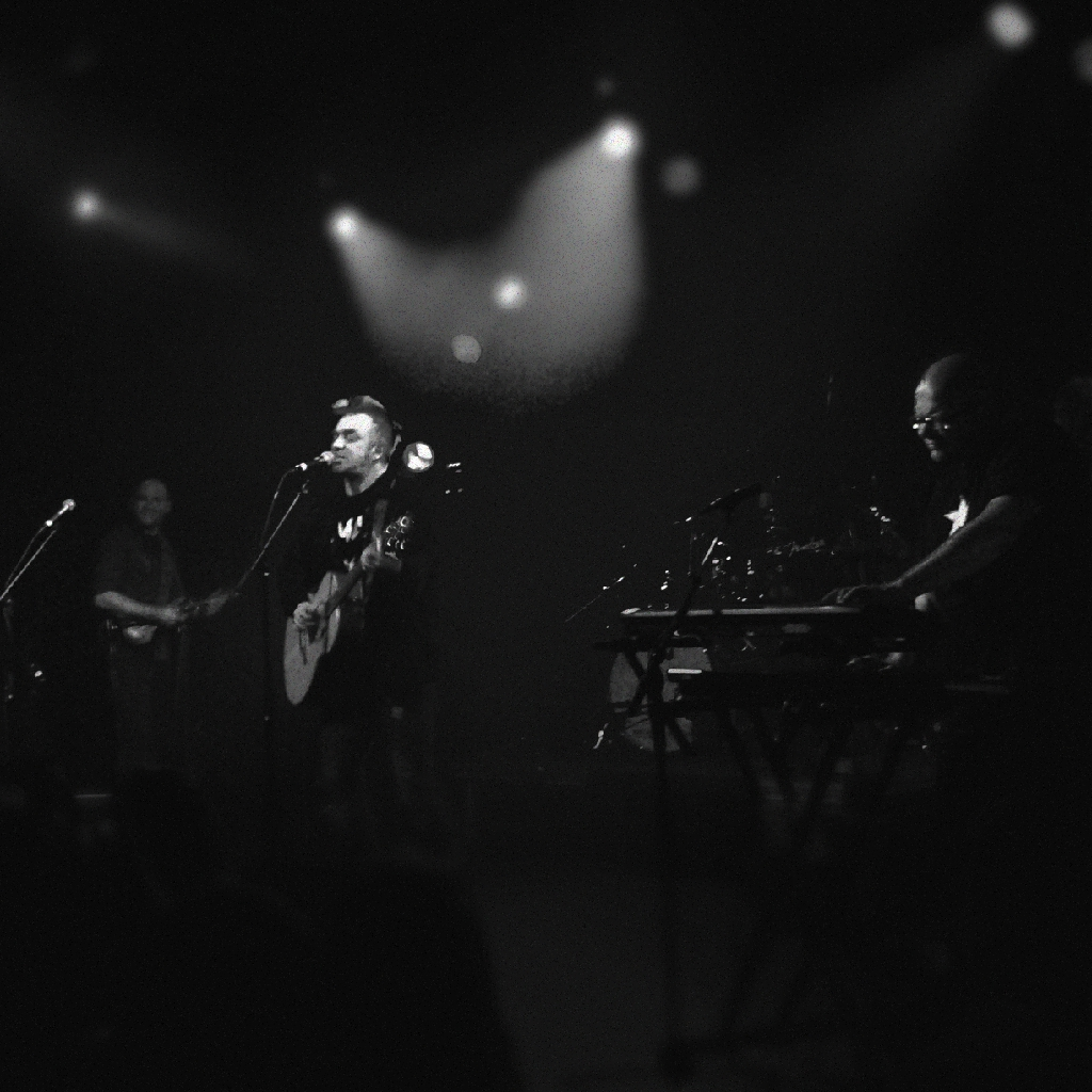 Andrius Mamontovas performing in Stockholm, Sweden.